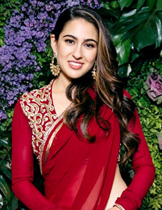 Sara Ali Khan graces Dinesh Vijan’s wedding reception and cocktail party